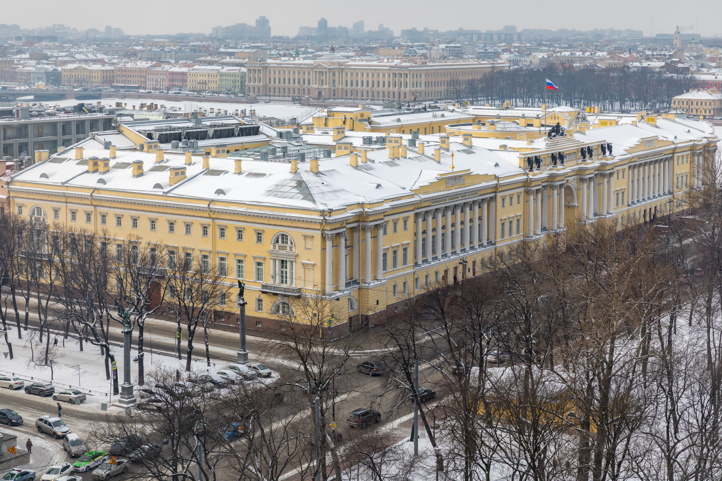 Saint Petersburg, Russia View from St. Isaac Cathedral colonnade on a winter day. Yeltsin presidential library